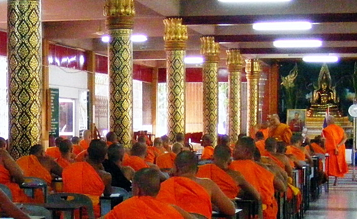 Examination of Buddhist monk In Uttaradit Location: Wat Klongpho .in Ban Ko subdistrict, Mueang Uttaradit, Uttaradit Province, Thailand.